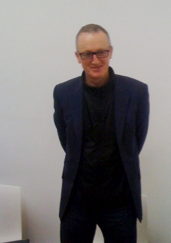 English artist Michael Landy at South London Gallery in January 2010.